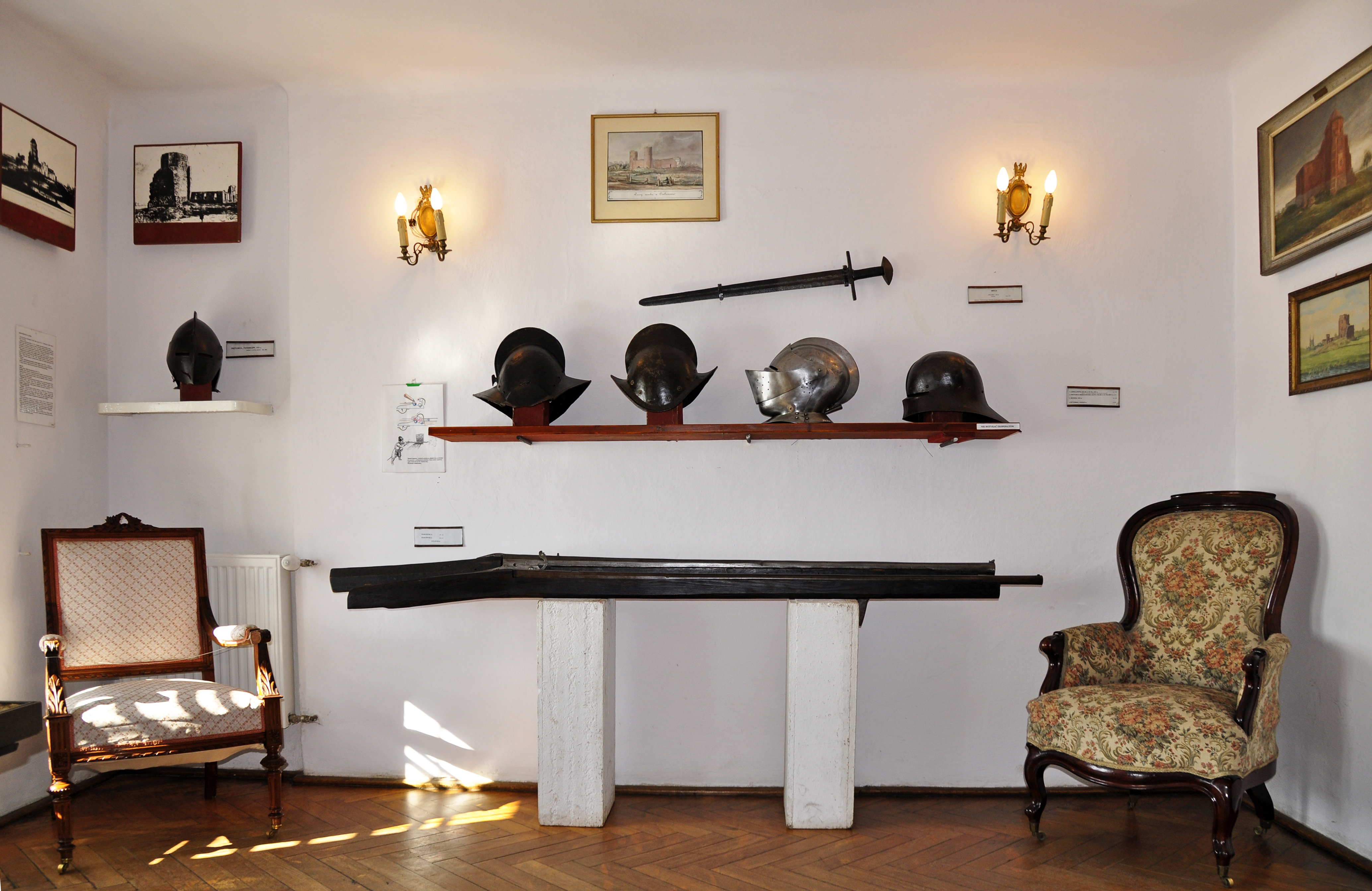 inside museum Liw